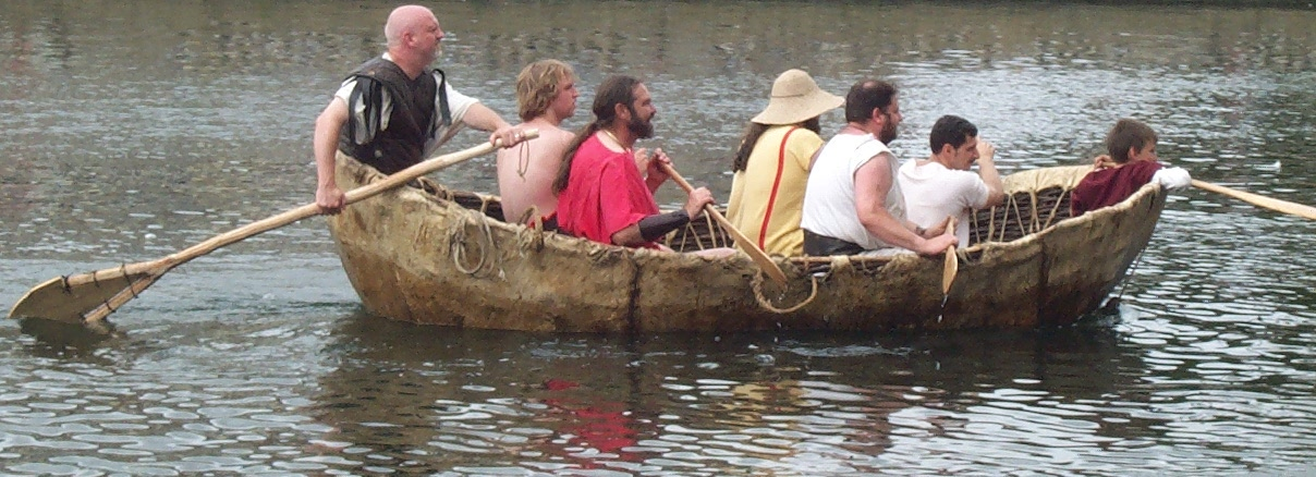 A reconstruction of a C1 AD British Curragh (a big coracle),made of wicker work and covered with 3 cow hides. It is capable of carrying 10 people. It was being paddled on the River Great Ouse at the 2008 Bedford River Festival.